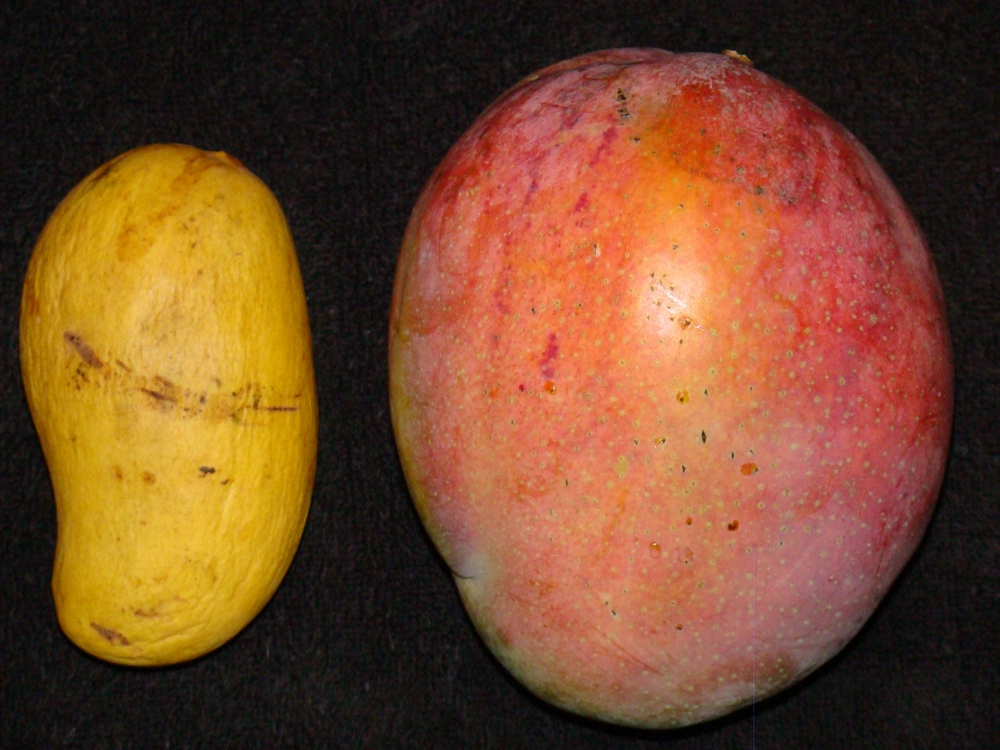 A ripe Tommy Atkins mango (Mangifera indica / Anacardiaceae) from the Ghosh Grove, Rockledge, Florida is compared with a store-bought Ataulfo mango (left), grown in Mexico.